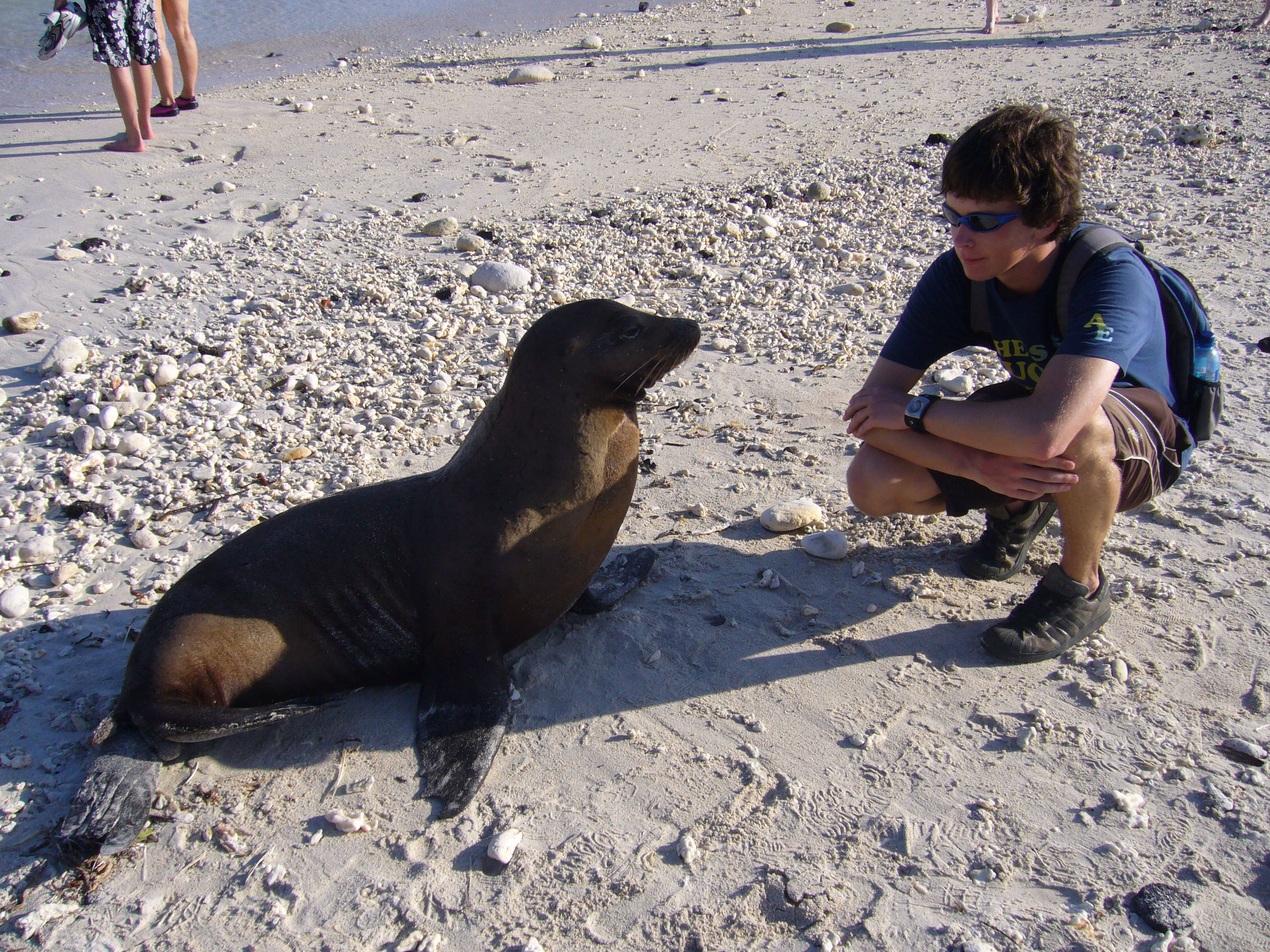 A person kneeling next to a seal